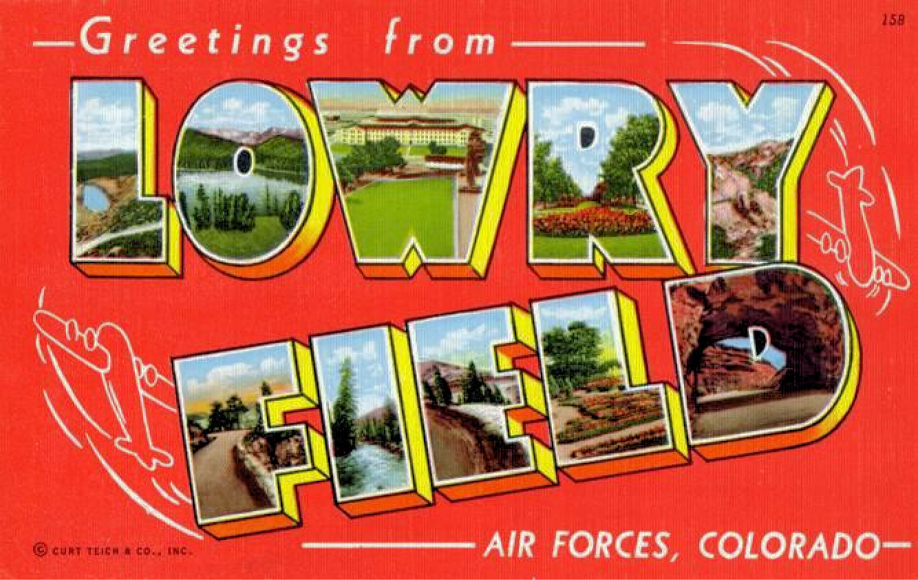 Army Air Forces - Postcard - Lowry Field Colorado